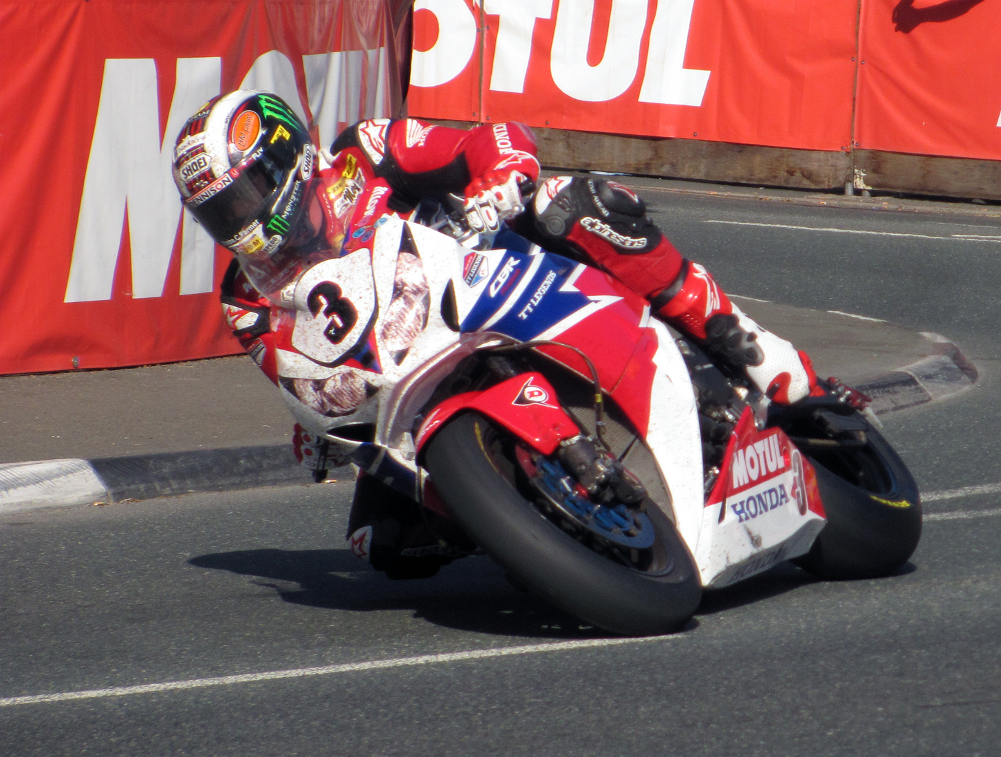 Senior TT, Lap 5, John McGuinness